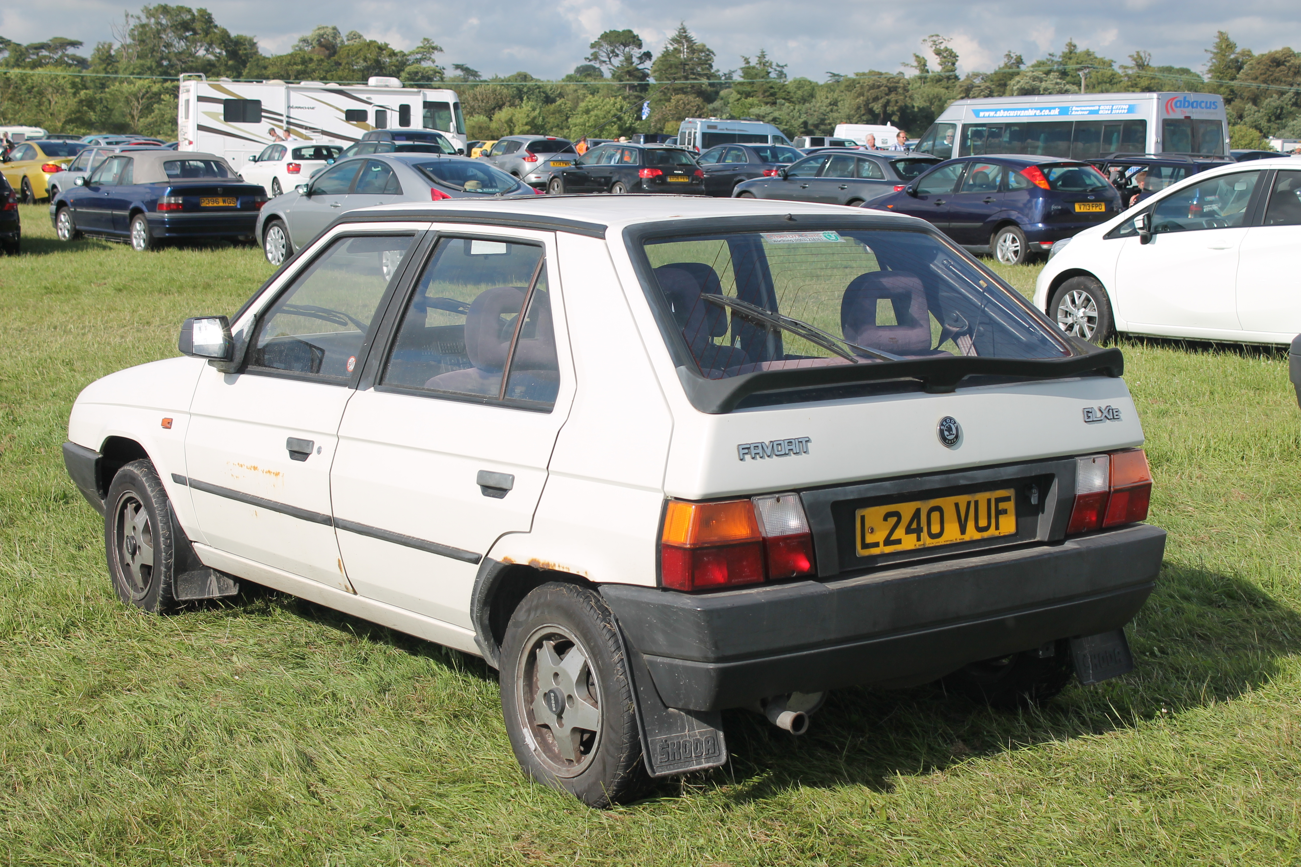 Haven't seen a UK Favorit for years, then managed to see two in one day, both in the same car park at a car show. This one was nice, but the other was more interesting IMO and significantly rarer. This GLXIE is one of just 15 remaining on the roads at the end of 2013. I assume this was a higher spec model. Sold in my Granny's old town in West Sussex. The vehicle details for L240 VUF are: Date of Liability 01 01 2015 Date of First Registration 02 06 1994 Year of Manufacture 1994 Cylinder Capacity (cc) 1289cc CO₂ Emissions Not Available Fuel Type PETROL Export Marker N Vehicle Status Licence Not Due Vehicle Colour WHITE Vehicle Type Approval Not Available